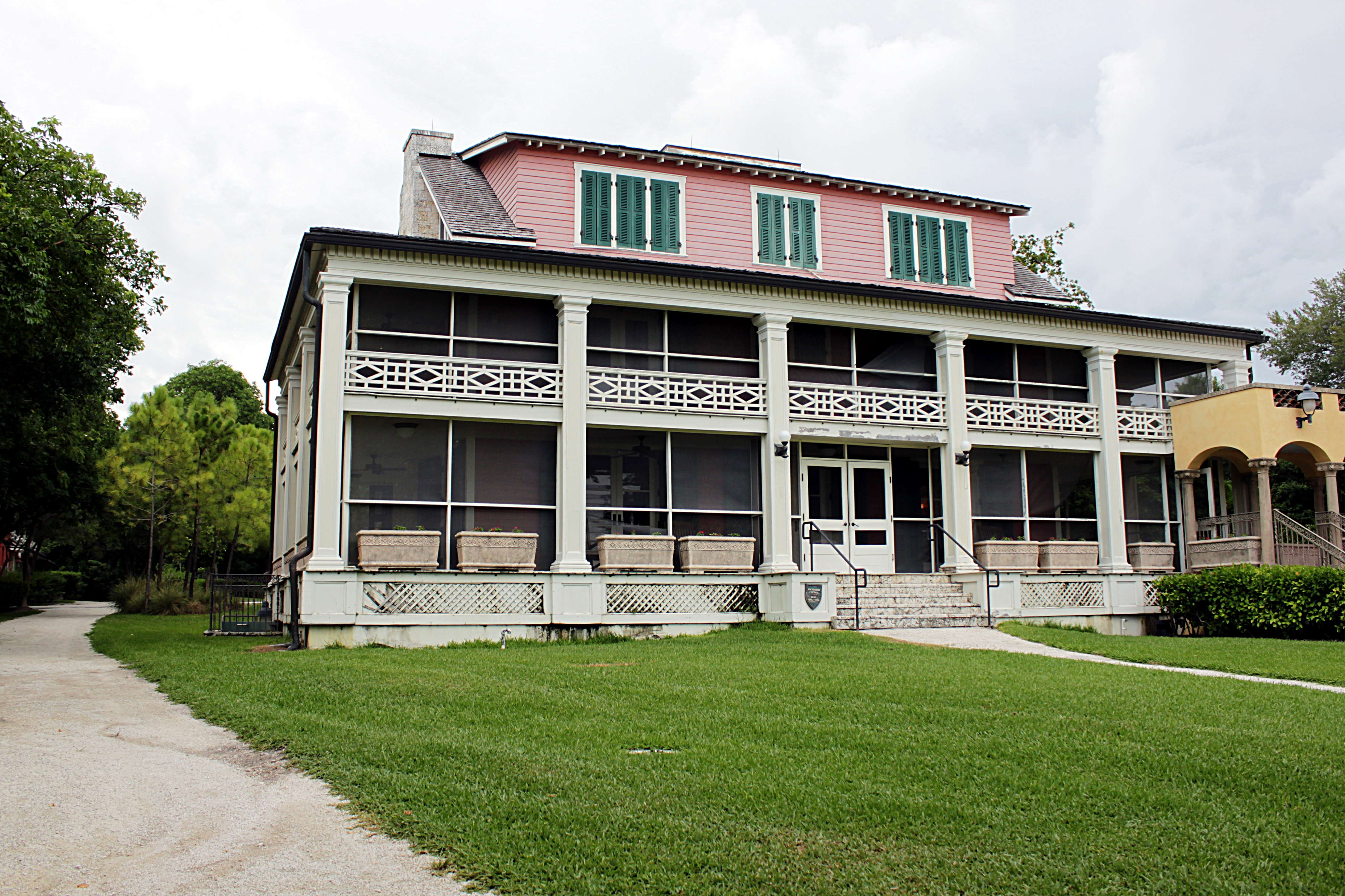 Front view of the Richmond Cottage at Charles Deering Estates at Cutler, Florida. The cottage was built in built in 1900.